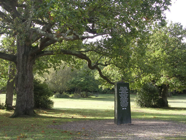 The Rufus Stone in the shade, New Forest. This photo shows the shady context of the Rufus Stone memorial: for more details see 26525.